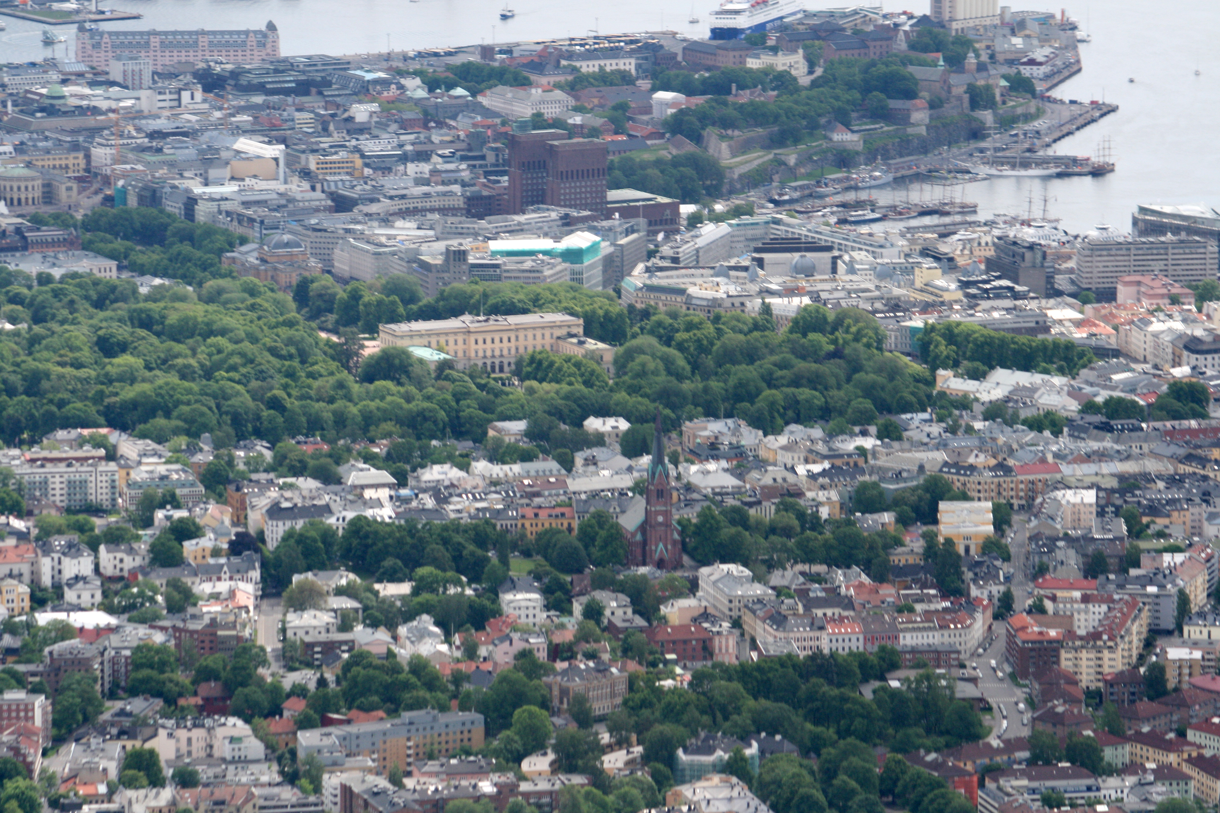 Aerial photograph from June 14th, 2015. Part of western and central Oslo with the Royal Palace and its park in the middle.